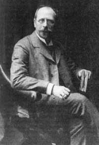 Austrian author, † 1906